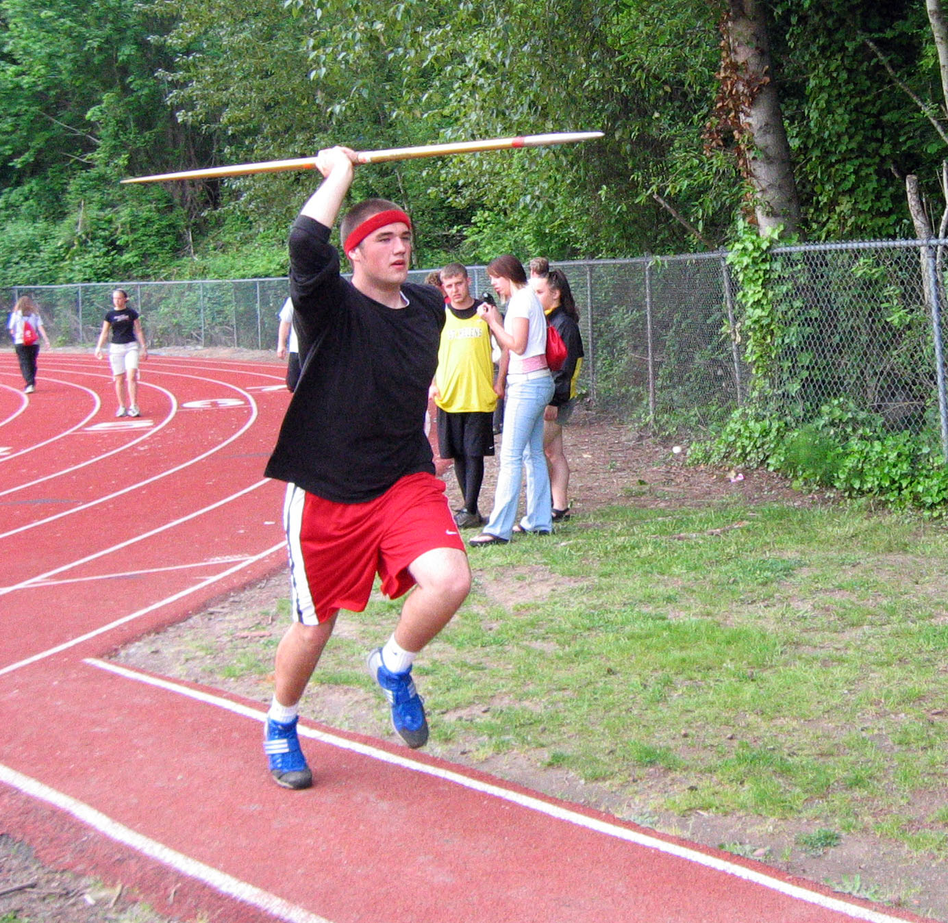 A high school athlete throwing the javelin.